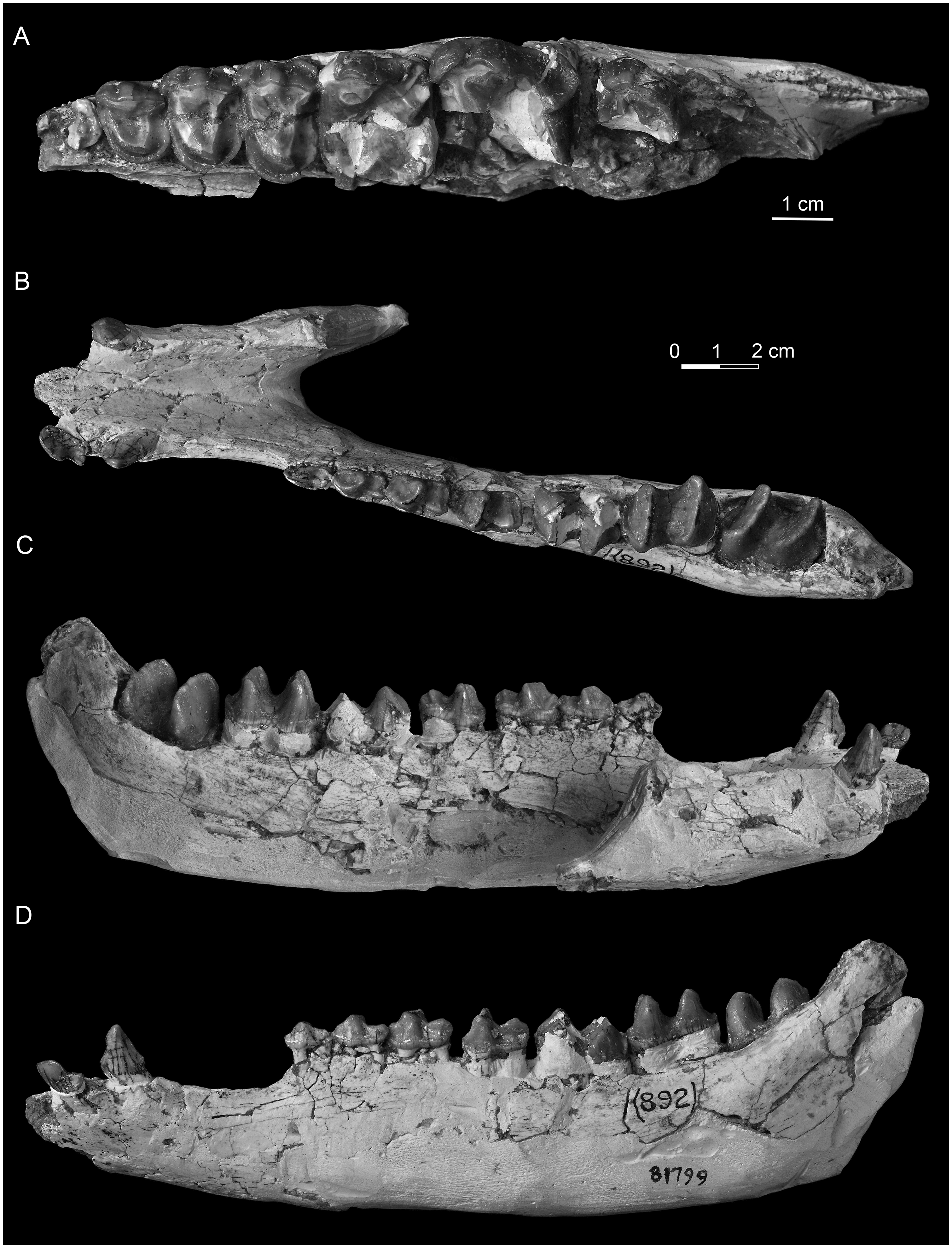 Irenolophus, dentaries of I. primarius; A: occlusal view of the left maxilla with P2-M1, and M2–3 fragments (AMNH FM 81851); B-D: lower jaw with right c, left i3, c, and p1-m3 in occlusal (B), lingual (C), and buccal (D) views (AMNH FM 81799); Arshanto Formation, Erlian Basin, Inner Mongolia, Early to Middle Eocene